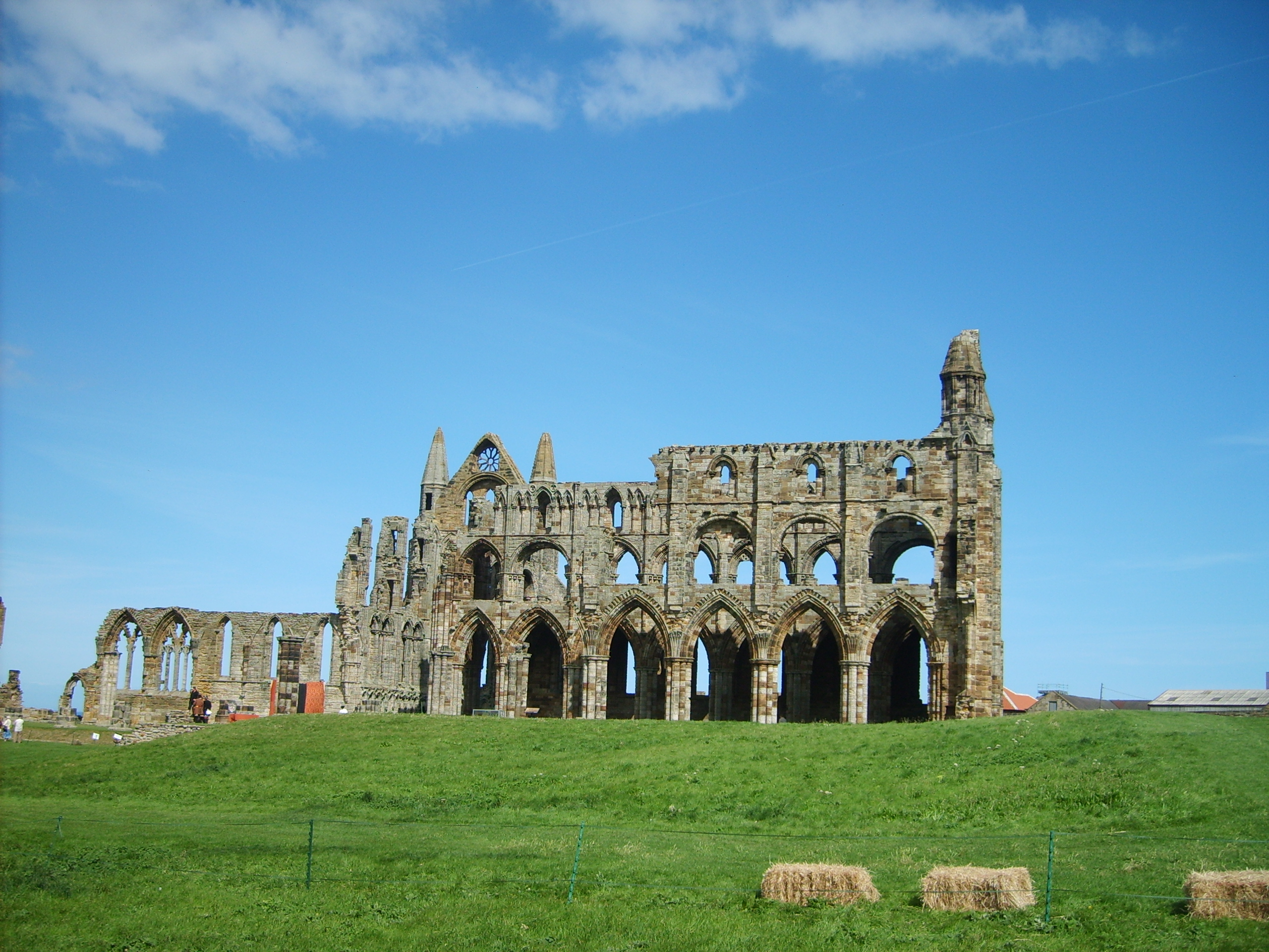 Whitby Abbey, North Yorkshire, England. Grade I listed ruin.